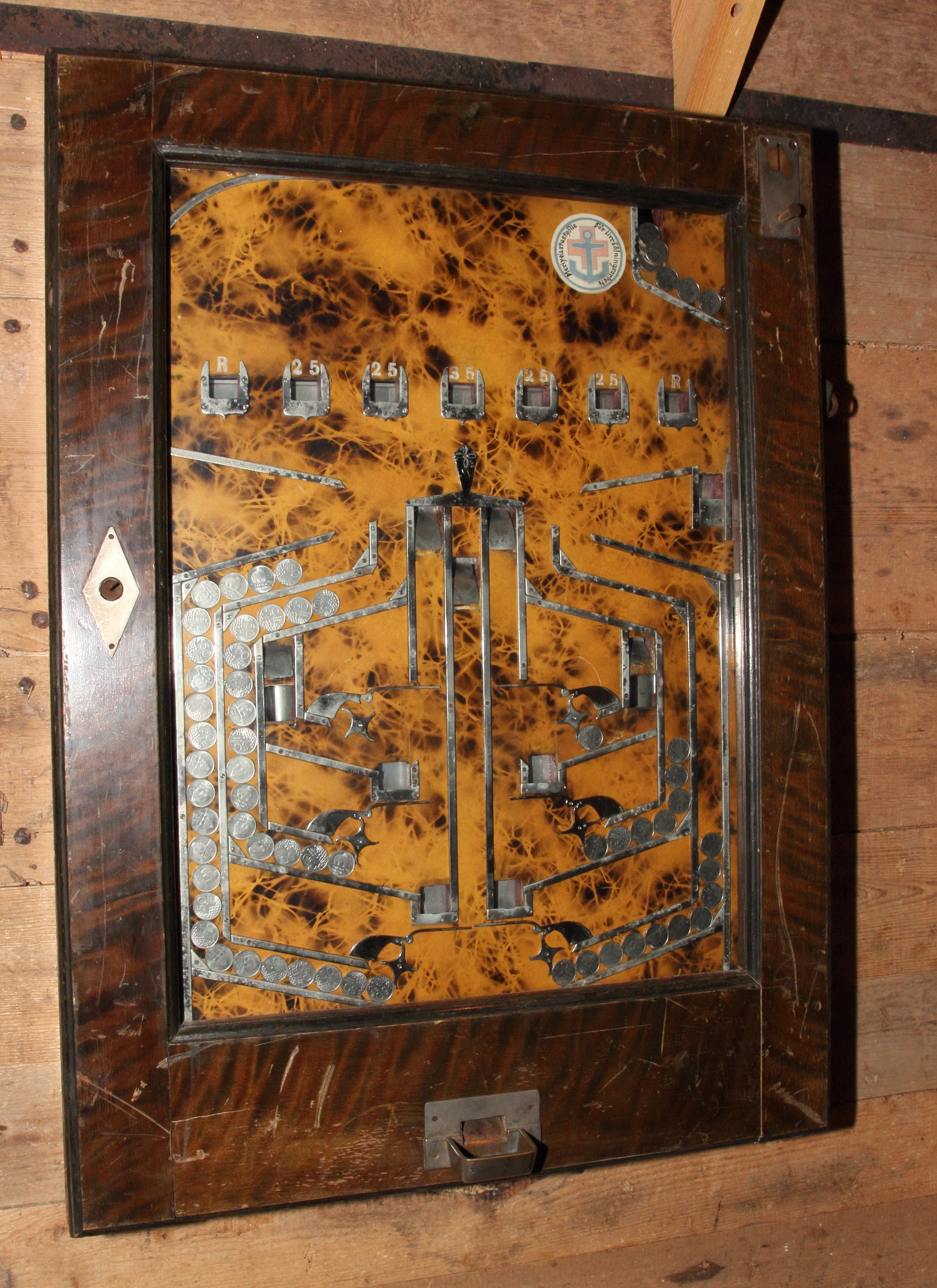 Finnish lifeboat institution payazzo gambling machine in Forum Marinum maritime museum.